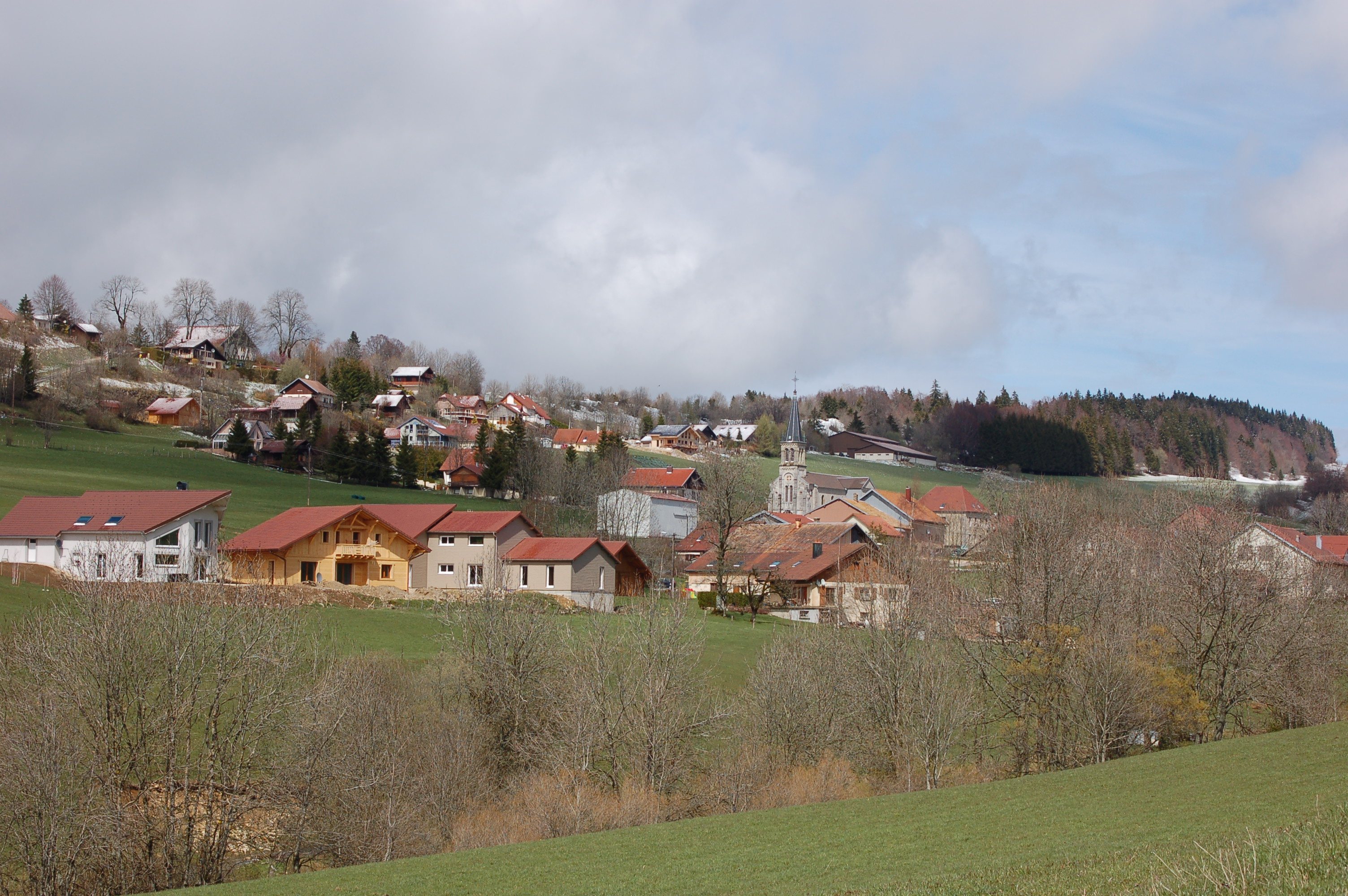 The village of Allies (25) in 2012.